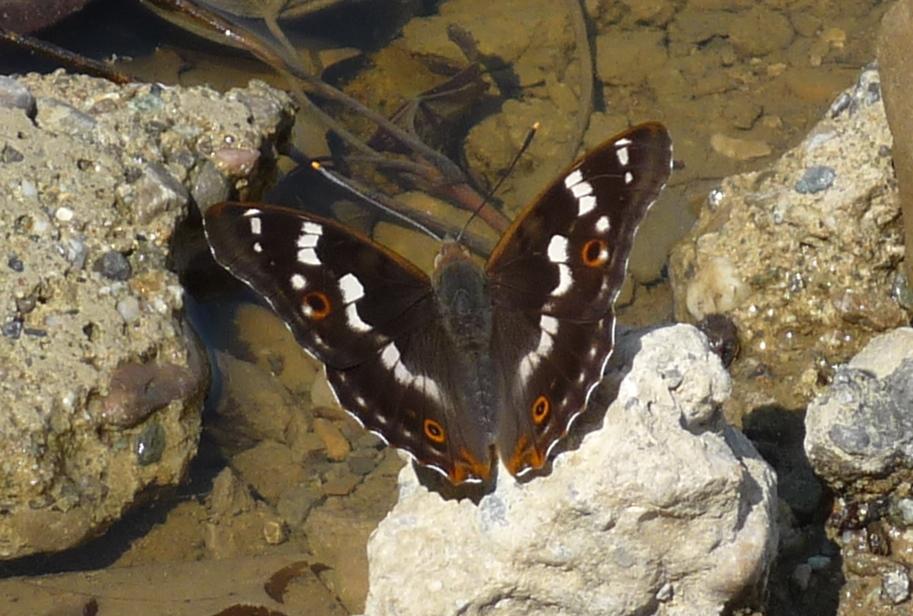 Seen close to Biberach, Germany in June 2009